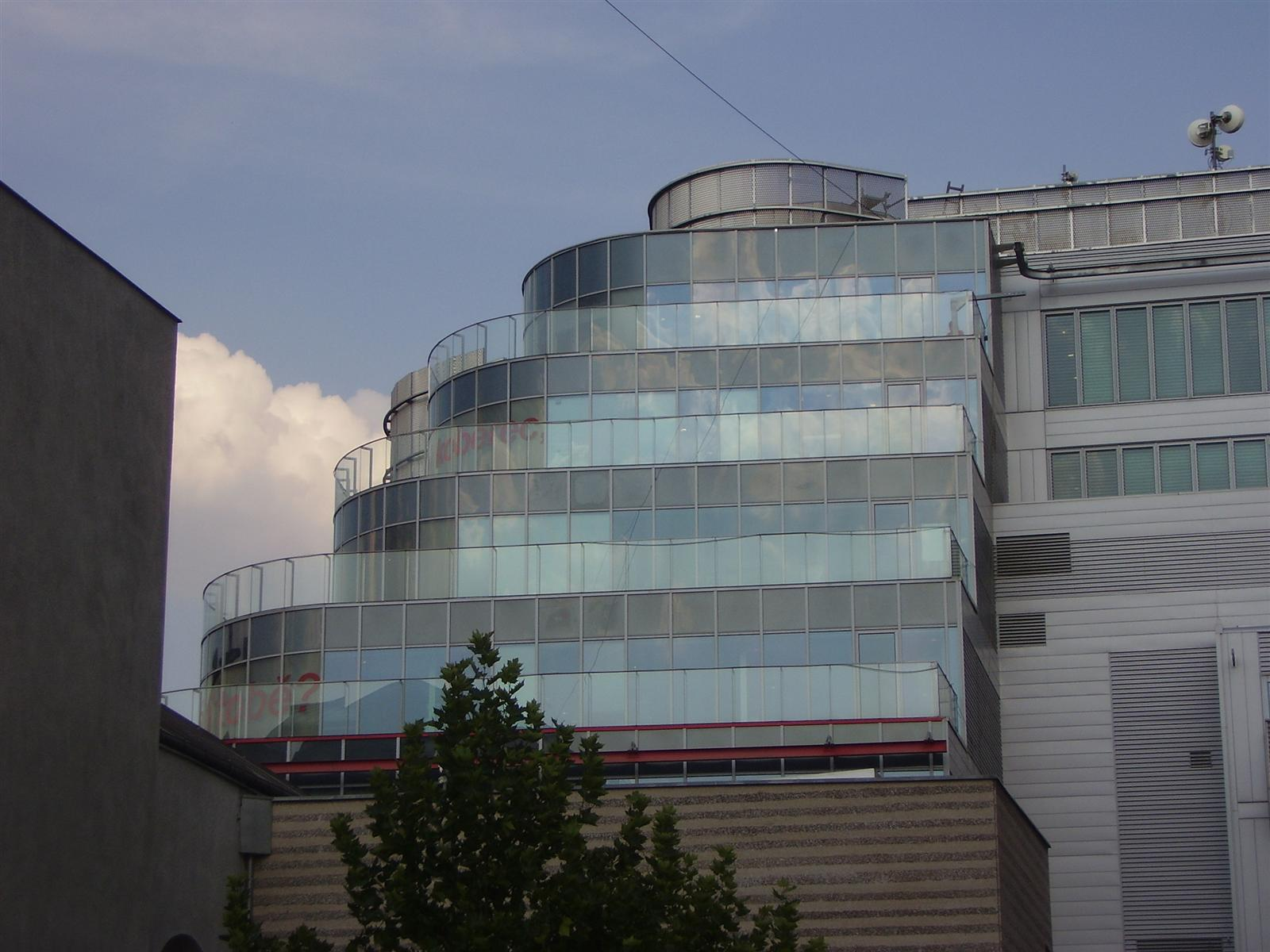 Prague-Smíchov, Zlatý Anděl bussines center from Stroupežnického street